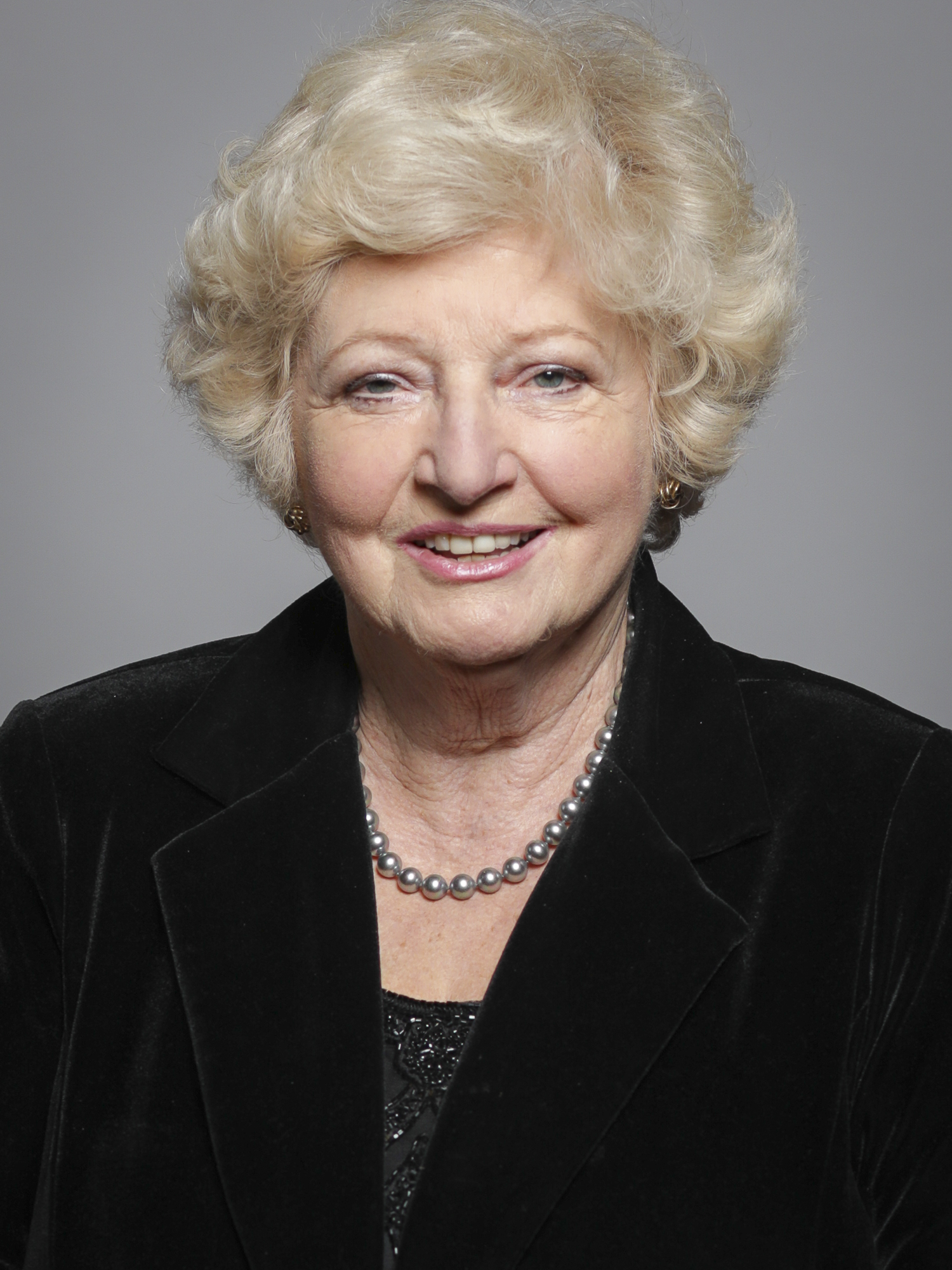 Official portrait of Baroness Murphy 3×4 portrait of Baroness Murphy